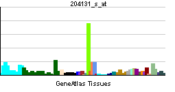 Gene expression pattern of the FOXO3A gene.